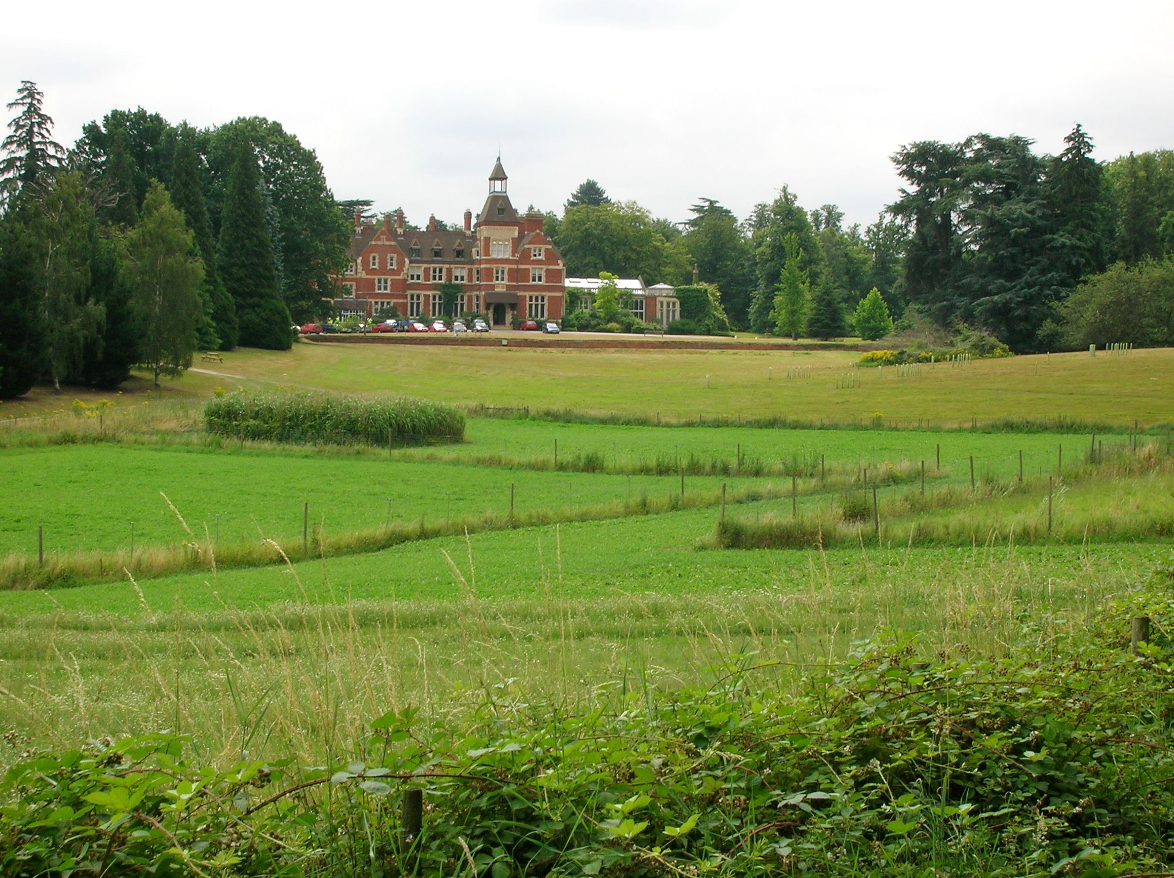 Looking south-east across the experimental plots in Silwood Bottom.